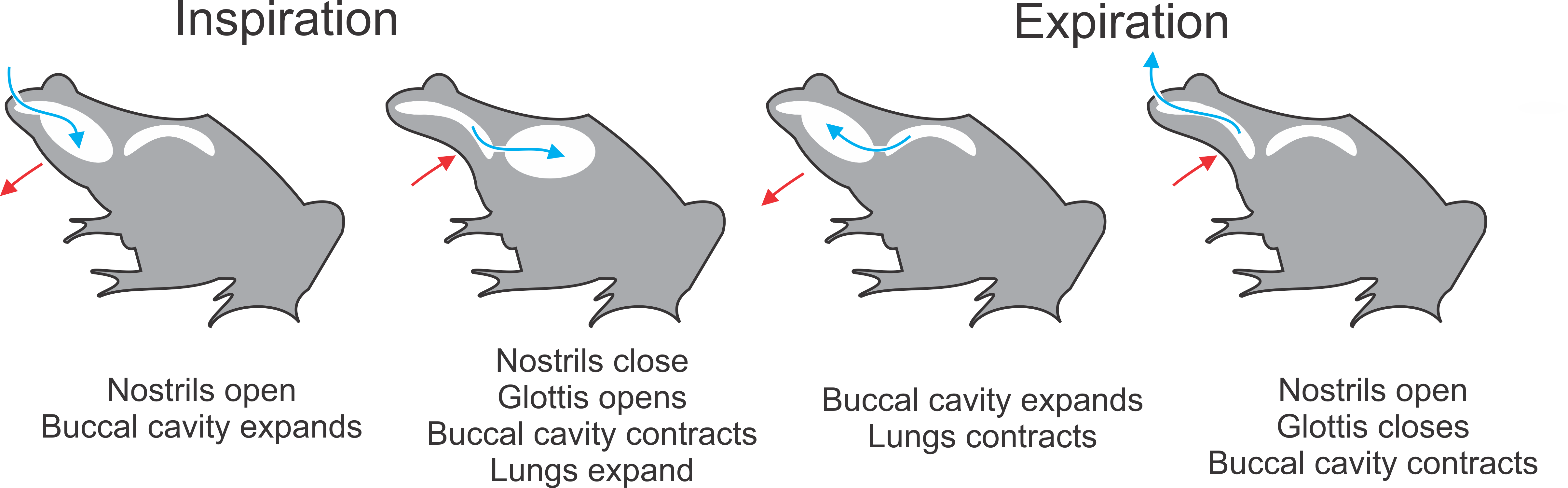 Common mode of amphibian respiration, fixing blurriness whenever I upload JPGs